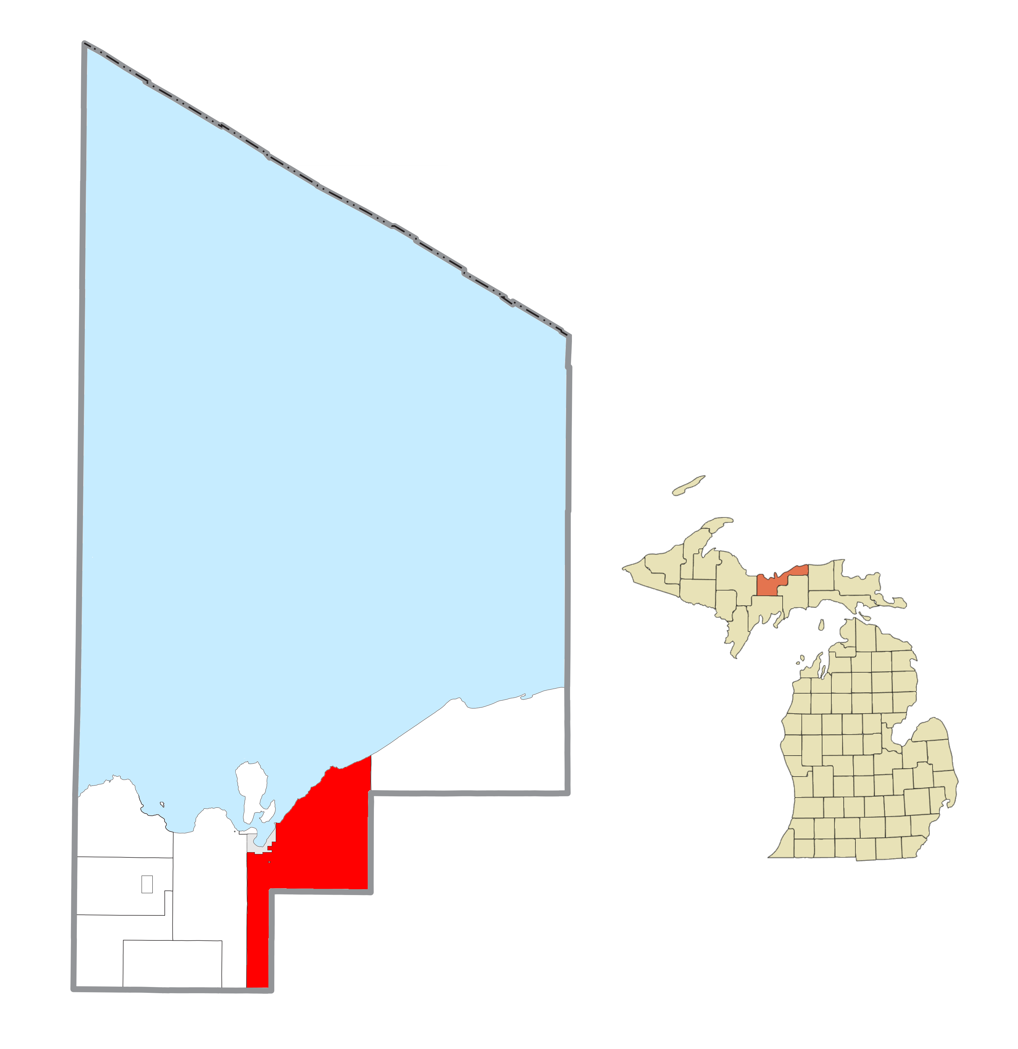 Munising Township, MI